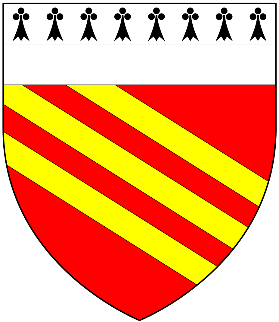 Arms of Venner of (Hudscott) Chittlehampton, Devon: Gules, three bends or a chief per fess ermine and argent (Vivian, Lt.Col. J.L., (Ed.) The Visitation of the County of Devon: Comprising the Heralds' Visitations of 1531, 1564 & 1620, Exeter, 1895, p.746)